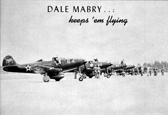 Local call number: PR13624 Title: [Planes at Dale Mabry Field : Tallahassee, Florida] [graphic] Publication info: ca. 1943. Physical descrip: 1 photonegative : b&w ; 3 x 5 in. Series Title: (Print collections.) General Note: "Dale Mabry keeps 'em flying."